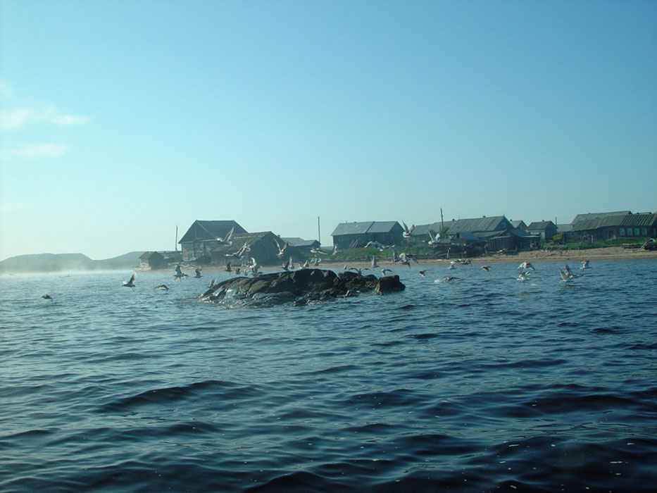 Chavanga from White Sea